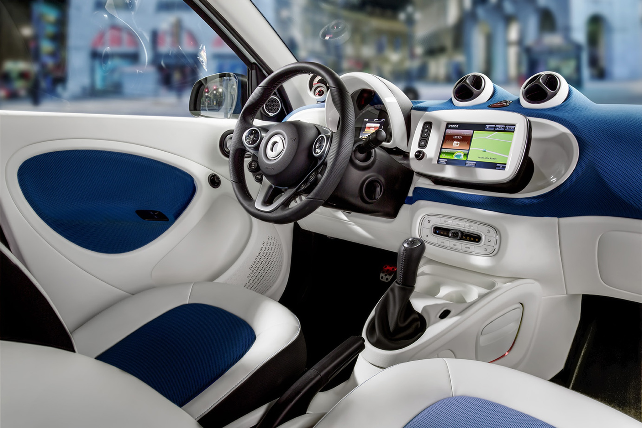 Der neue smart forfour, 2014 Polsterung in Lederoptik / Stoff weiß/blau, Instrumententafel und Türmittelfelder in Stoff blau und Akzentteile in weiß, smart Media-System The new smart forfour, 2014 Upholstery in leather look / white/blue fabric, dashboard and door centre panels in blue fabric and contrast components in white, smart media system